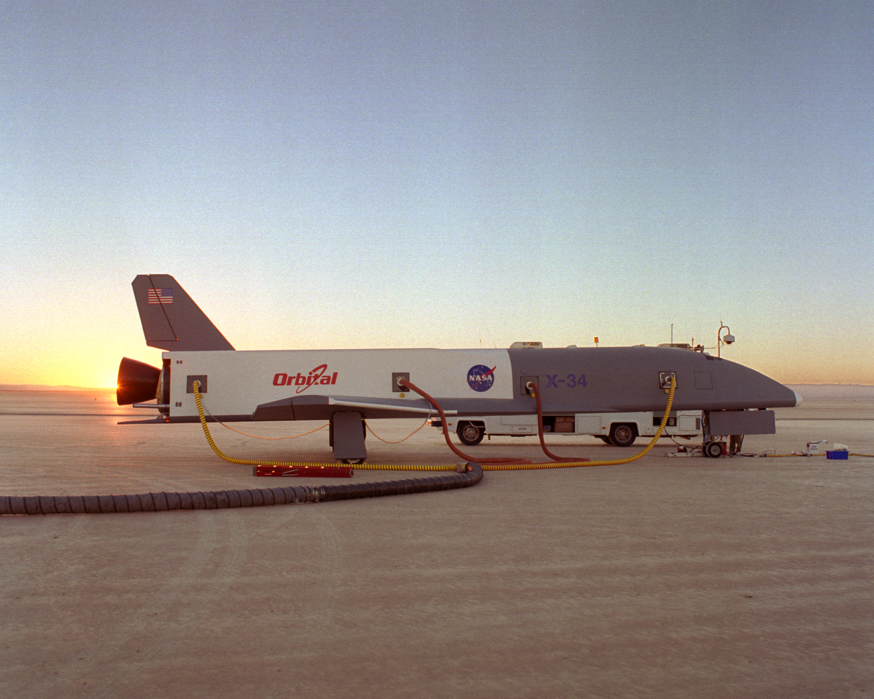 X-34 on lakebed prior to tow test. Following initial captive flight tests last year at NASA's Dryden Flight Research Center, Edwards Air Force Base, California, the X-34 technology demonstrator began a new series of tests last week in which it is being towed behind a semi-truck and released to coast on the Edwards dry lakebed. On July 20, 2000, it was towed and released twice at speeds of five and 10 miles per hour. On July 24, 2000, it was towed and released twice at 10 and 30 miles per hour. Twelve tests are planned during which the X-34 will be towed for distances up to 10,000 feet and released at speeds up to 80 miles per hour. The test series is expected to last at least six weeks.